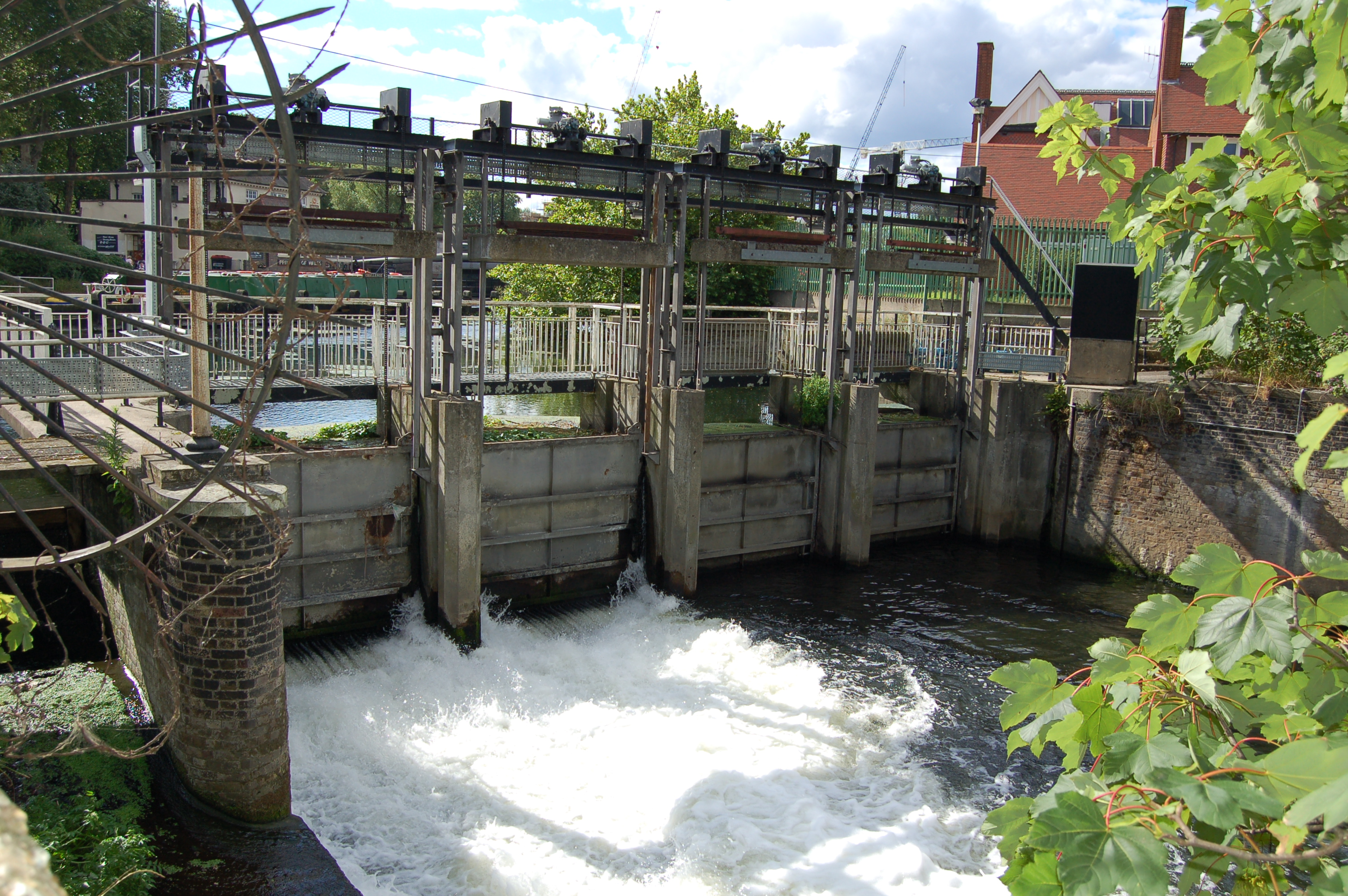 Middlesex Filter Beds Weir Use freely, please attribute. K B Thompson